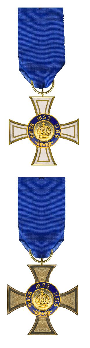 Two crosses of the Prussian Order of the Crown